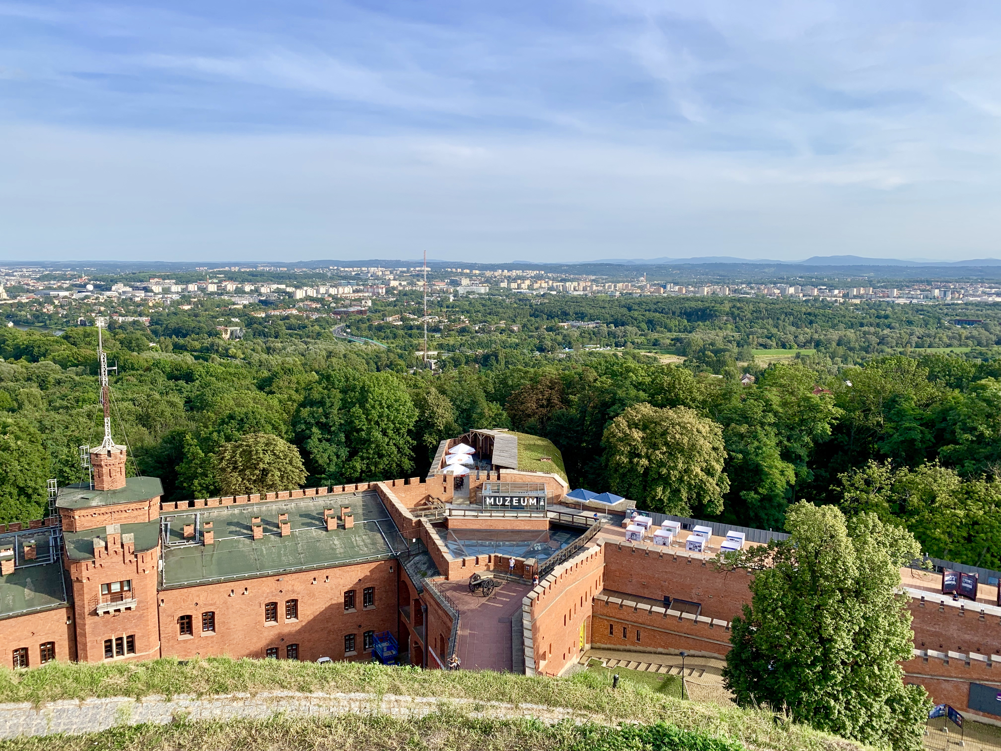 Views of Kraków from Kościuszko Mound, Kraków, Poland